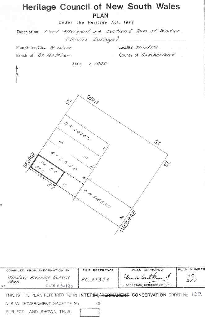 Reverend Turner Cottage: PCO Plan Number 202